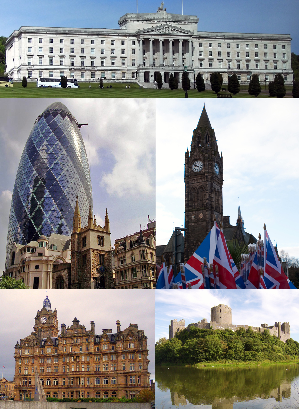 A montage of architecture of the United Kingdom.